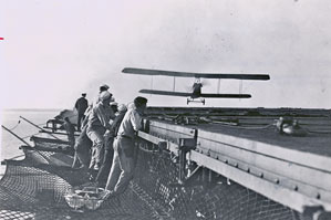 An Aeromarine 39B piloted by Lieutenant Commander Godfrey Chevalier makes the United States Navys first landing aboard an aircraft carrier